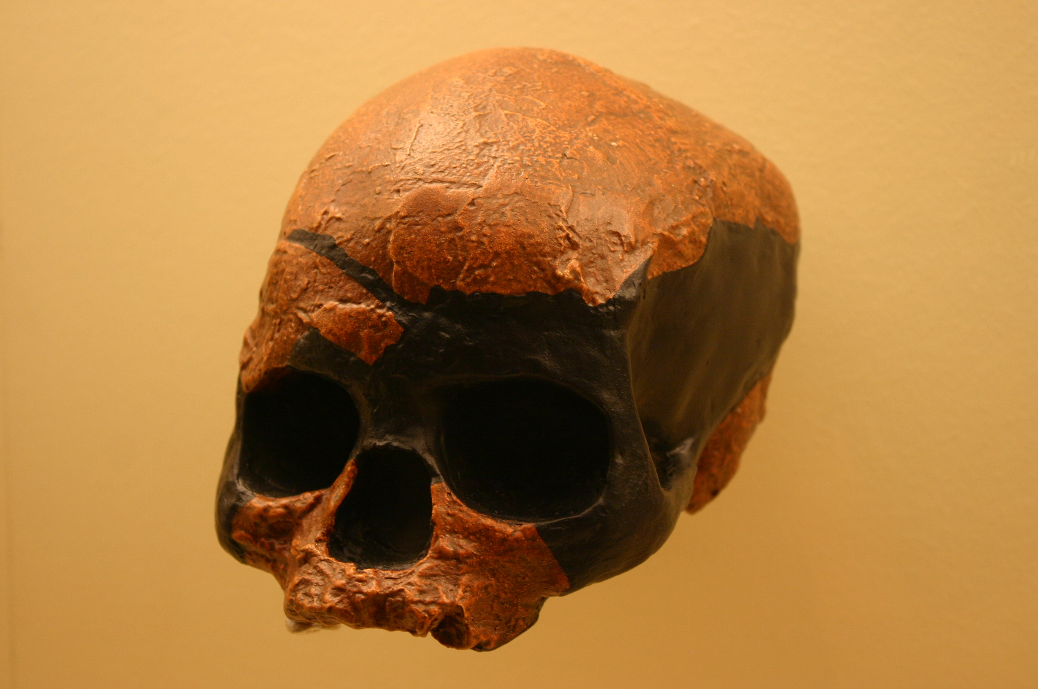 Taken at the David H. Koch Hall of Human Origins at the Smithsonian Natural History Museum.